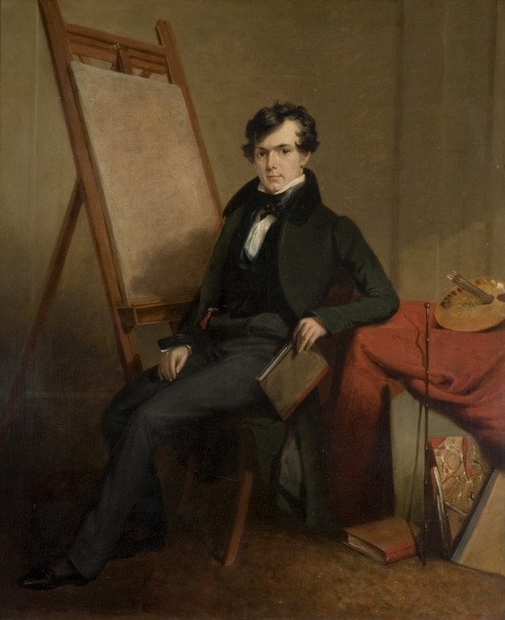 Self-portrait by Henry Room (1802–1850), English artist.